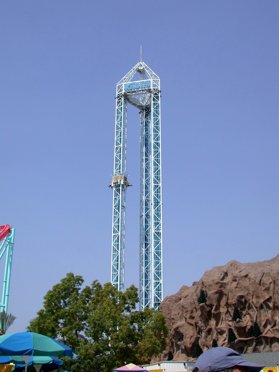 This is a view of Supreme Scream at Knott's Berry Farm.